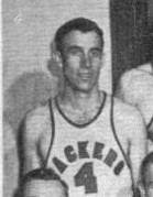 The 1947–48 Anderson Packers basketball team